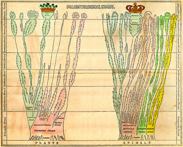 This is the Paleontological Chart in the publication 'Elementary Geology' (1840) by Edward Hitchcock. It shows two trees: one for plants, one for animals.